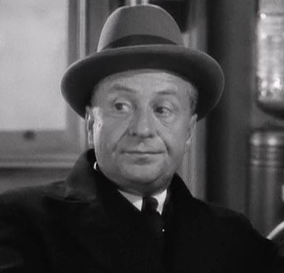 Ernest Truex in His Girl Friday - cropped screenshot